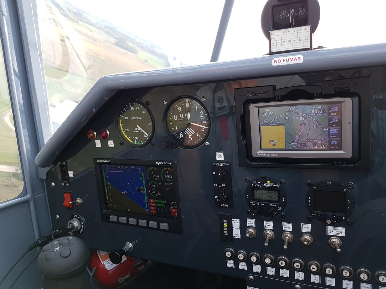 petrel inside view